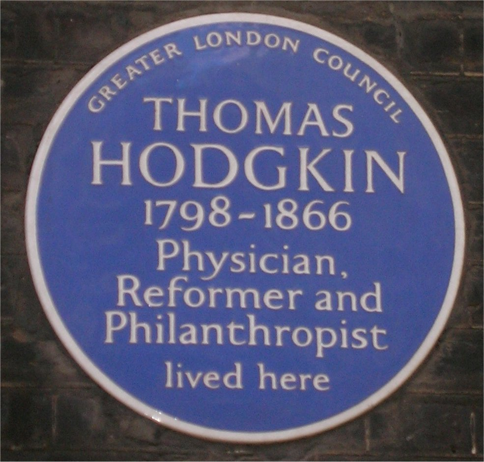 Blue plaque to Thomas Hodgkin on his house in Bedford Square, London, England. Photographed by me 29 September 2006. Oosoom